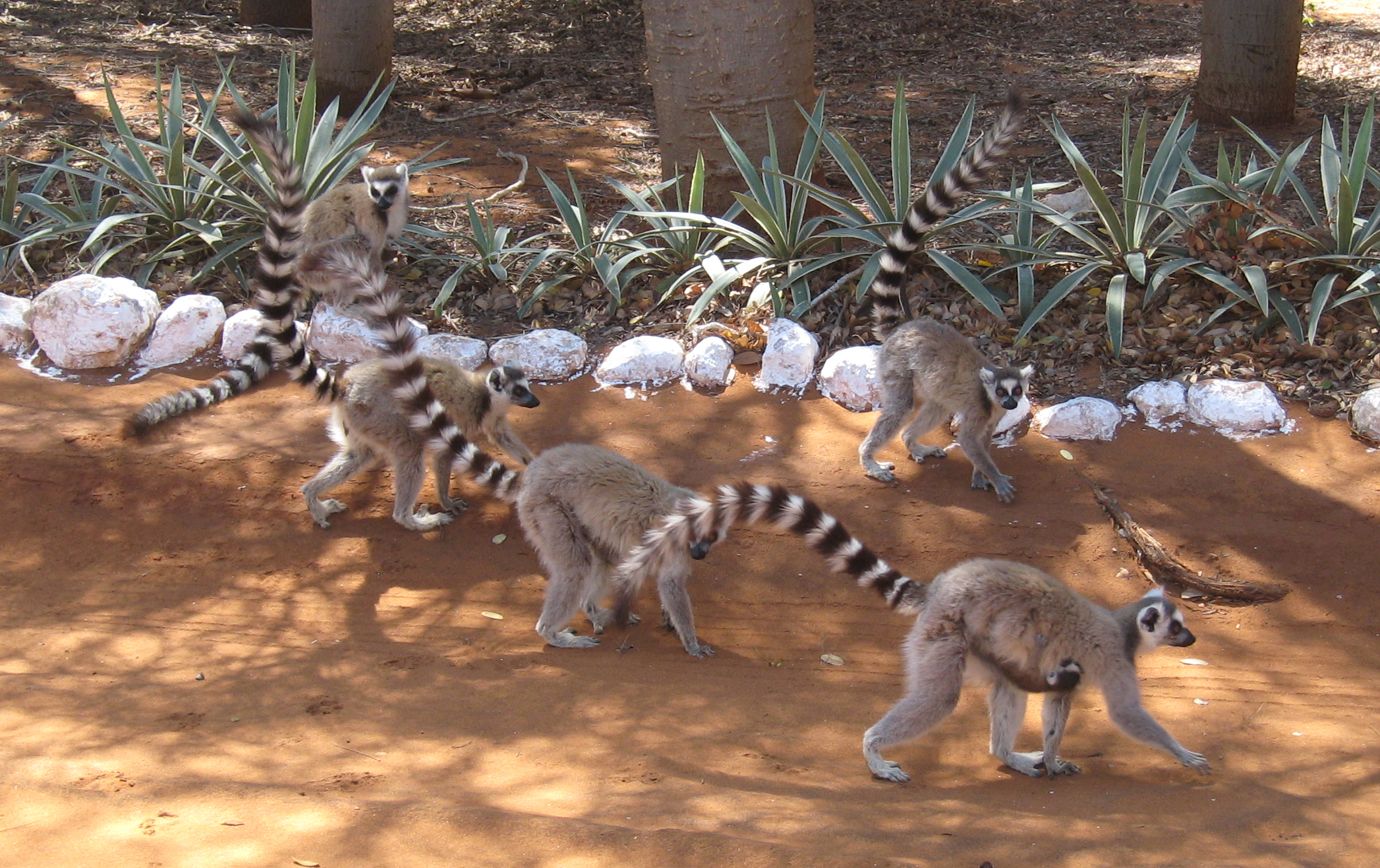 Ring-tailed Lemurs (Lemur catta) traveling in a small group at Berenty in Madagascar